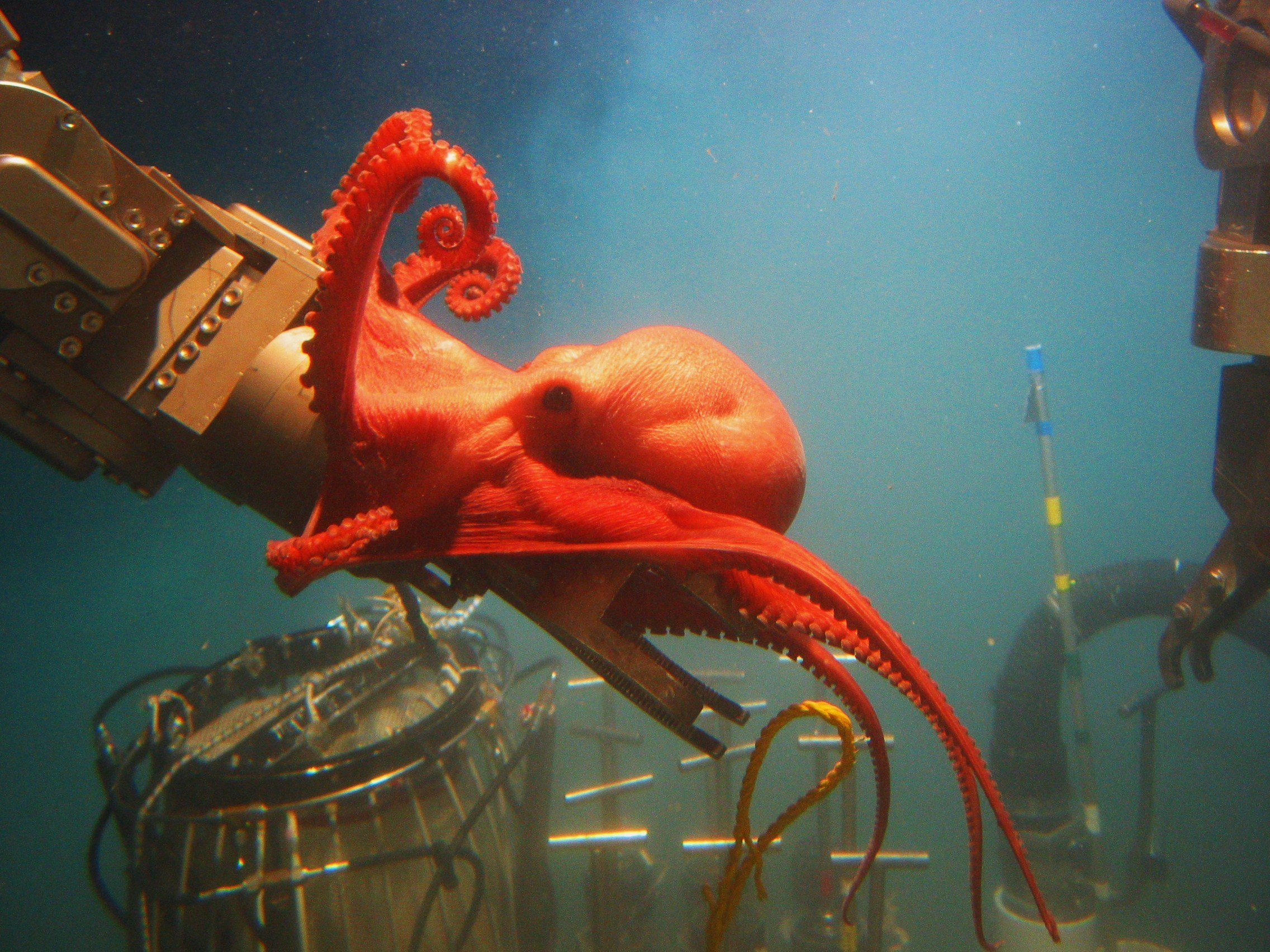 Benthoctopus sp. Encounters of the third kind. A brave octopus fights off an alien intruder. This stunning octopod, Benthoctopus sp., seemed quite interested in ALVIN's port manipulator arm. Those inside the sub were surprised by the octopod's inquisitive behavior.